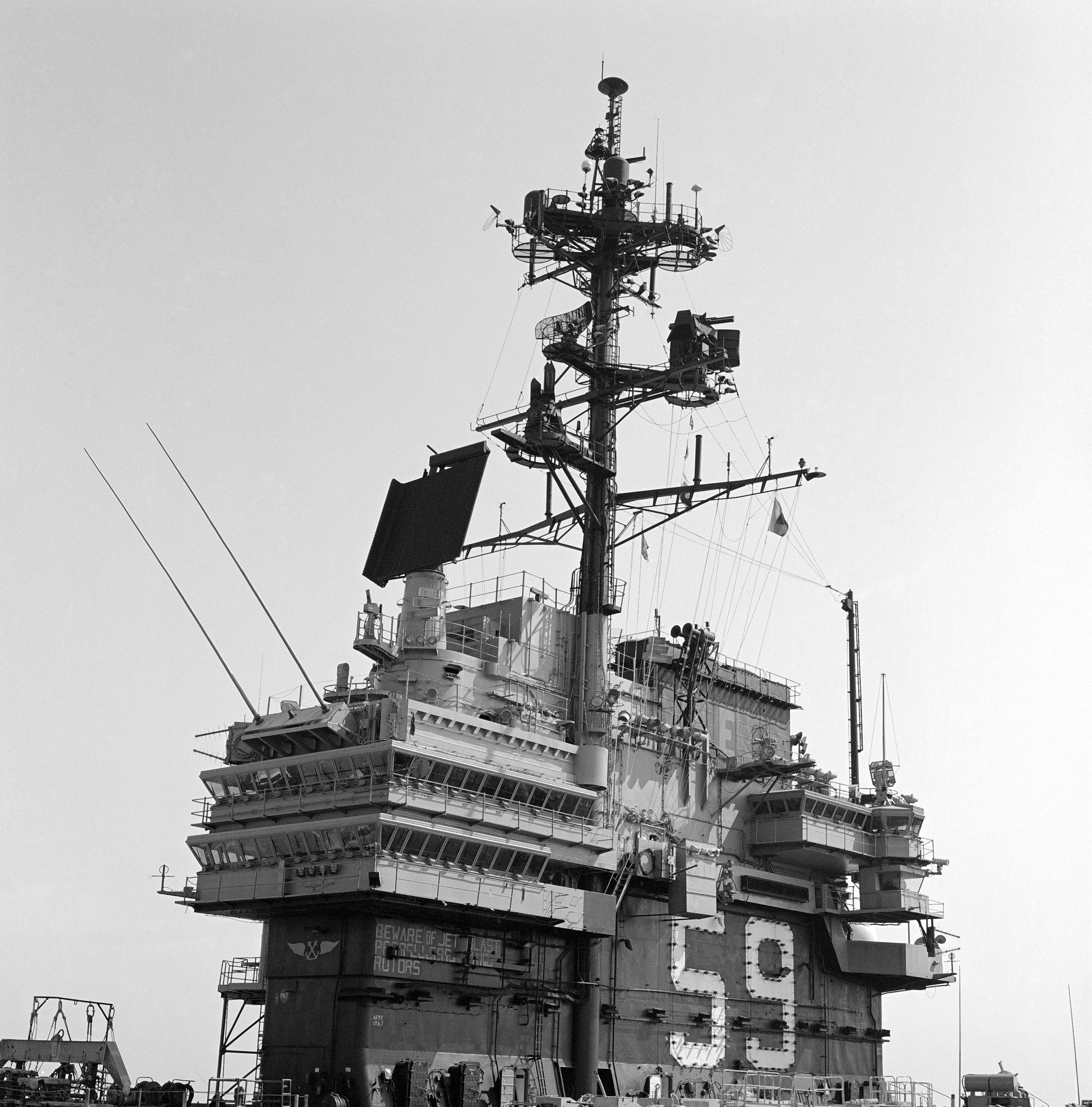 The most recent antenna riggings are displayed in this bow close-up of the island and masts of the aircraft carrier USS FORRESTAL (CV 59). Location: MAYPORT, FLORIDA (FL) UNITED STATES OF AMERICA (USA)